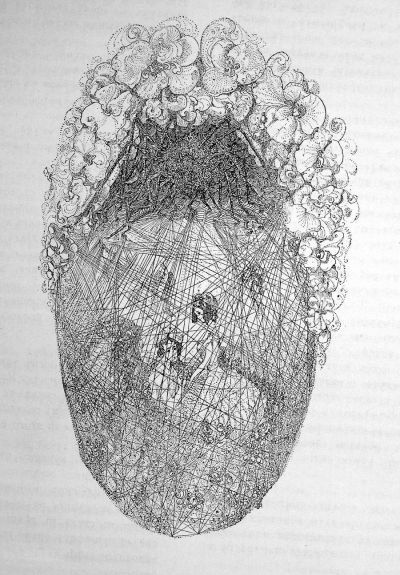 Headpiece of the magazine Zolotoye runo, 1907, #2. by Vladimir Petrovich Drittenpreis